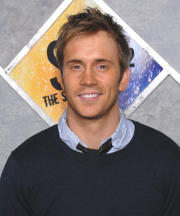 Robert Hoffman at the premiere of the film Step Up 2 The Streets